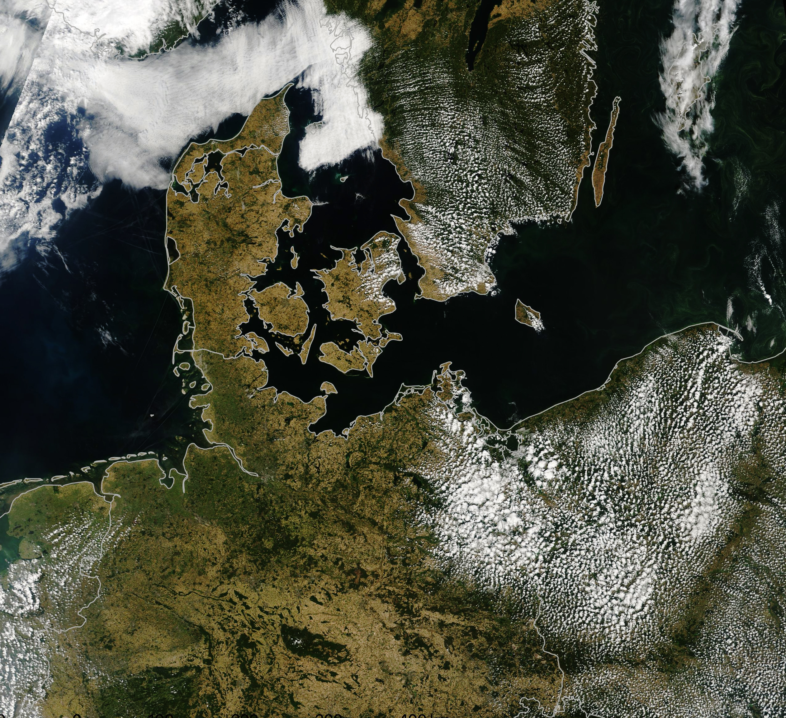 Browning in north-central Europe on July 24, 2018.